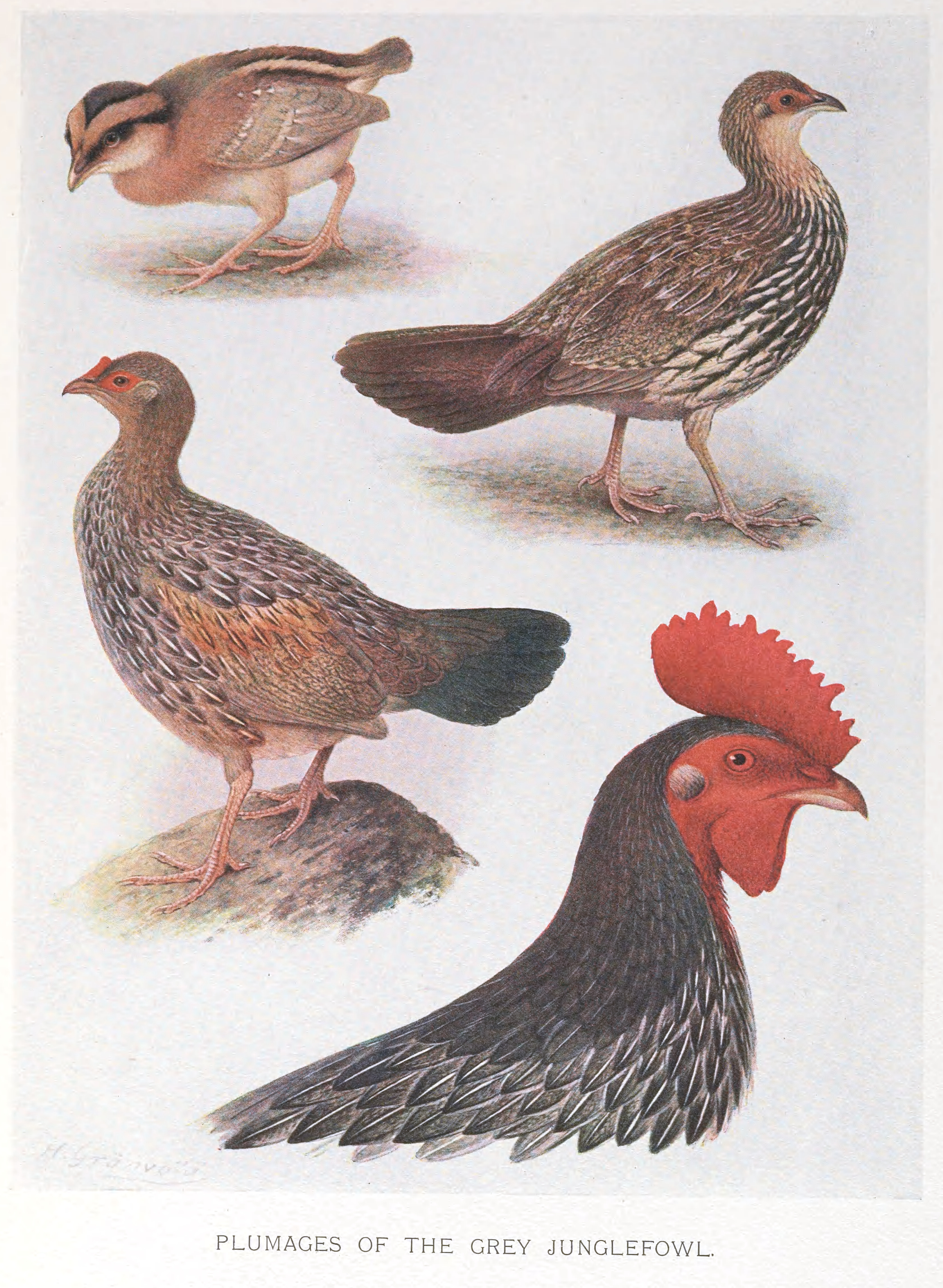 Plumages of Grey Junglefowl Gallus sonnerati Temminck Facing page 246 The chick in down has very distinct patterns and coloration, and the wing feathers sprout rapidly, so that it can fly a short time after hatching. The juvenile plumage of both sexes resembles that of the adult female, with usually a hint of the sealing-wax spots on the median wing-coverts of the cock. A full-grown cock in the eclipse plumage has the specialised neck hackles replaced with black ones. This partial moult lasts only for three months after the breeding season.